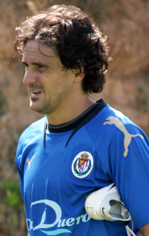 José Antonio García Calvo, retired Spanish footballer.